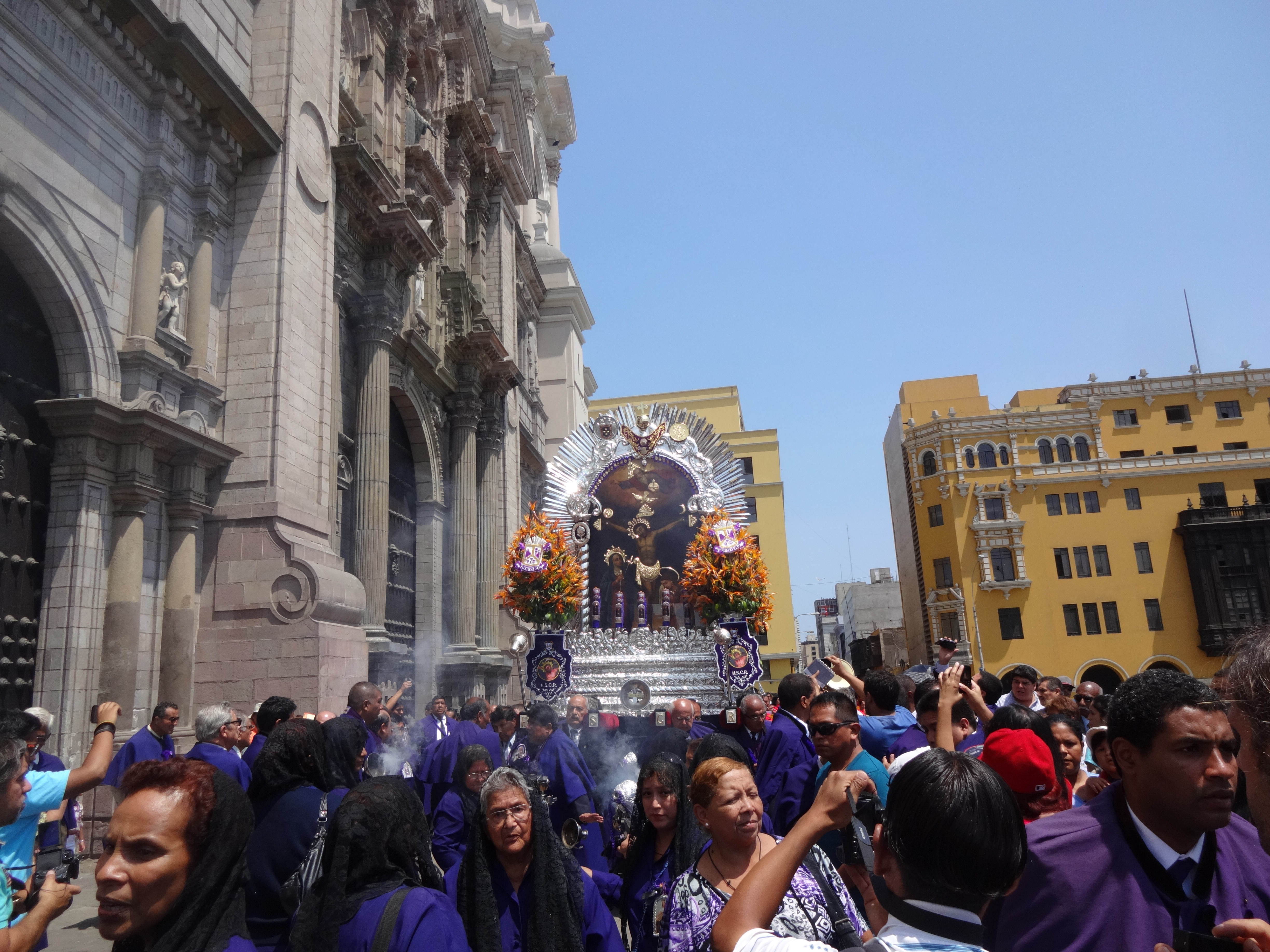 Procession of Señor Crucificado del Rimac, after mass in Cathidral of Lima.